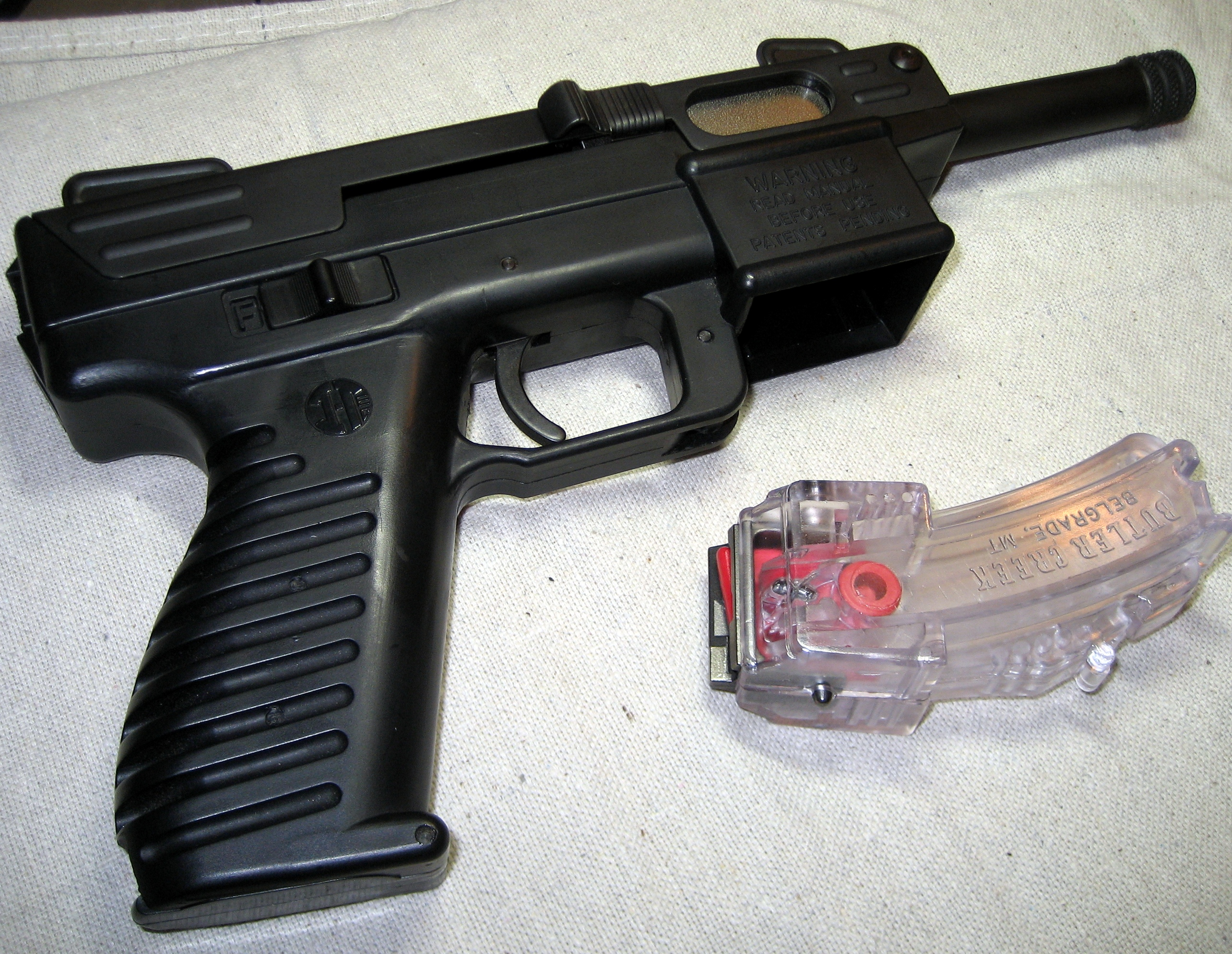 An Intratec TEC-22 handgun with non-original magazine.